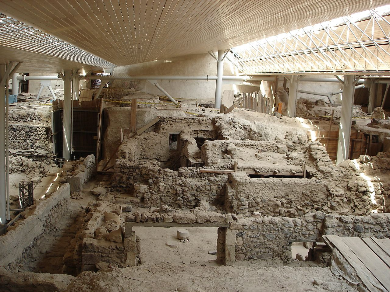 Axis D12-D13 of the under-construction Shelter above the archaeological site of Akrotiri. Picture taken on 04.07.2006 Prehistoric city of Akrotiri, Santorini (Thera)